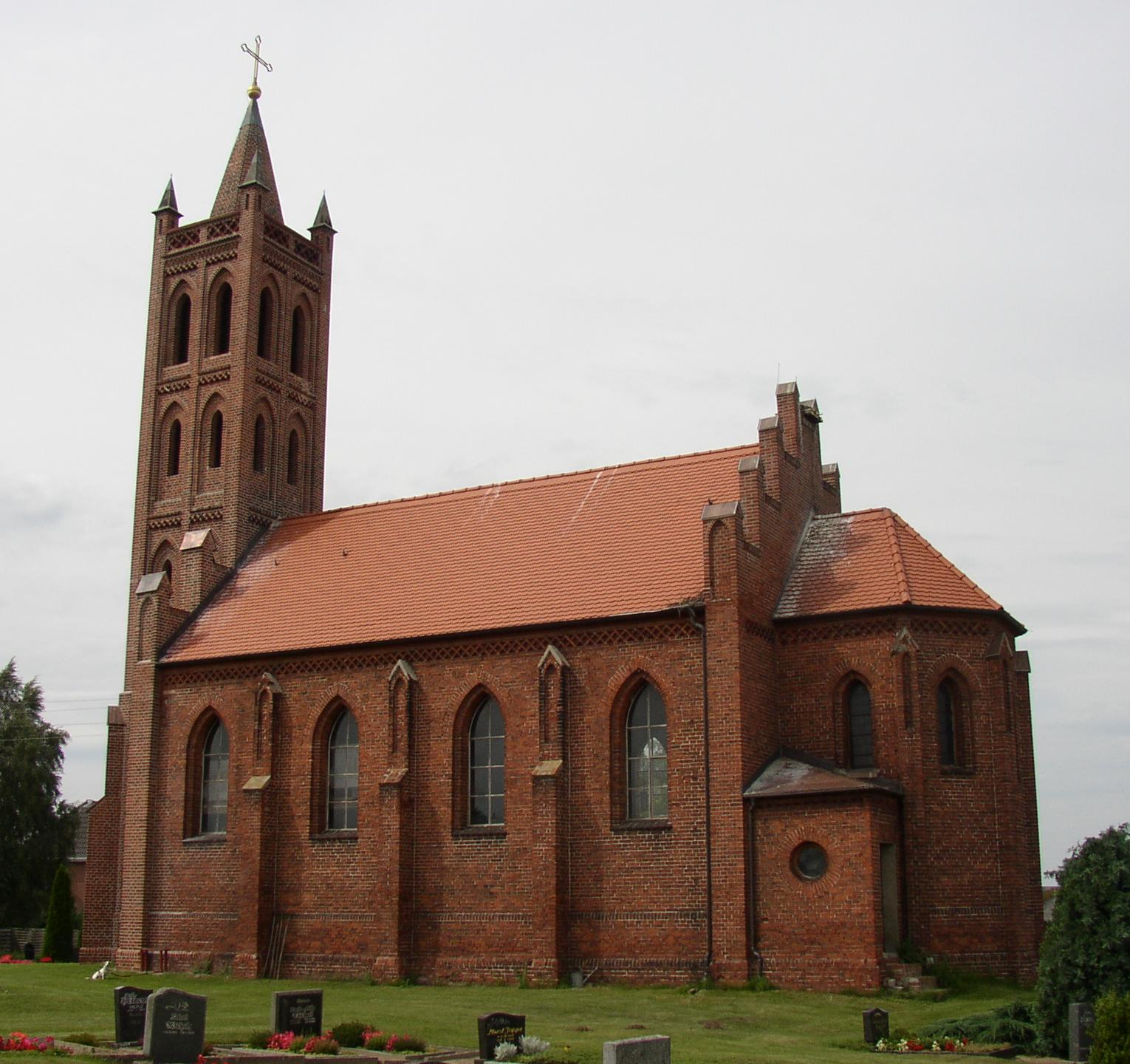 Church in Schollene-Molkenberg in Saxony-Anhalt, Germany